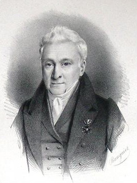 Charles Coppieters-Stochove (1774-1864)